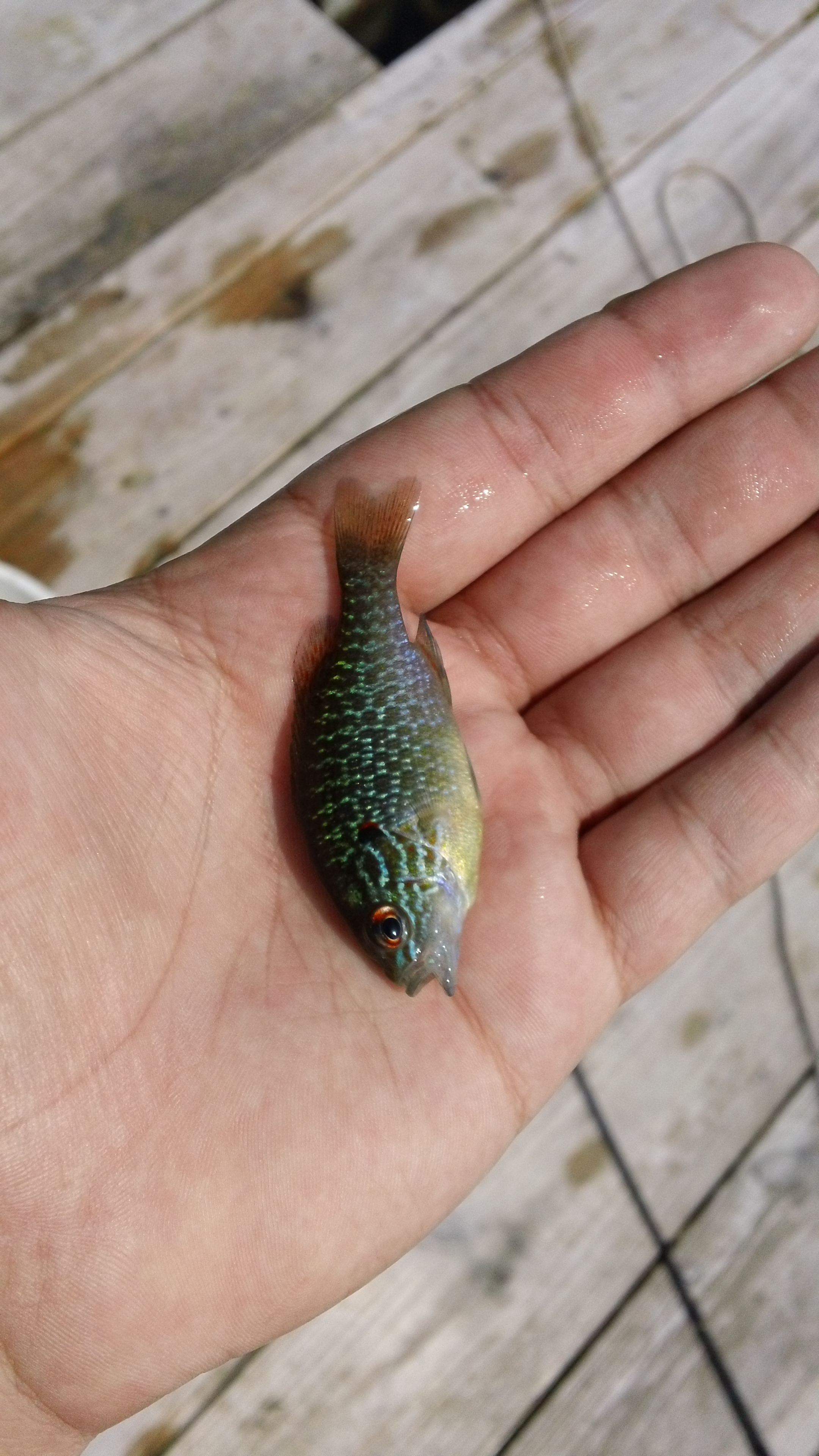 A small, northern sunfish caught at Lake Leelanau, MI.